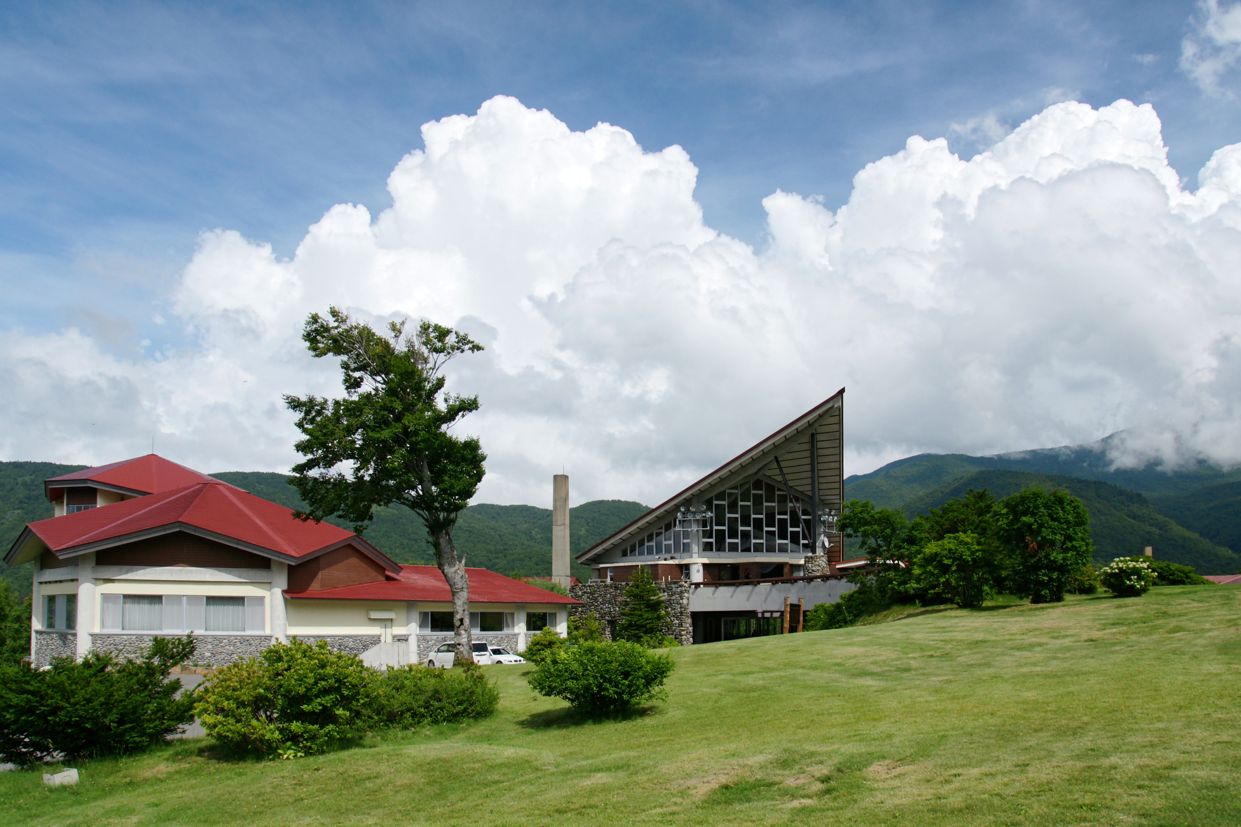 At Okushiga Kogen in Yamanouchi, Nagano prefecture, Japan.